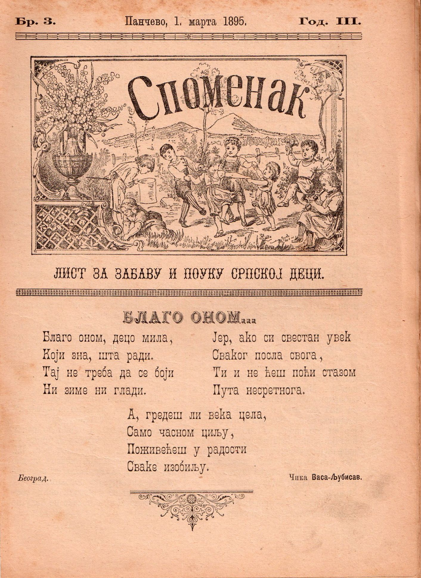 Spomenak, cover, number 3, 1895